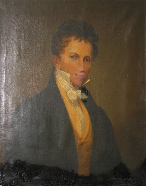 Thomas T. Yeatman at the age of 33. (Unknown Artist.)